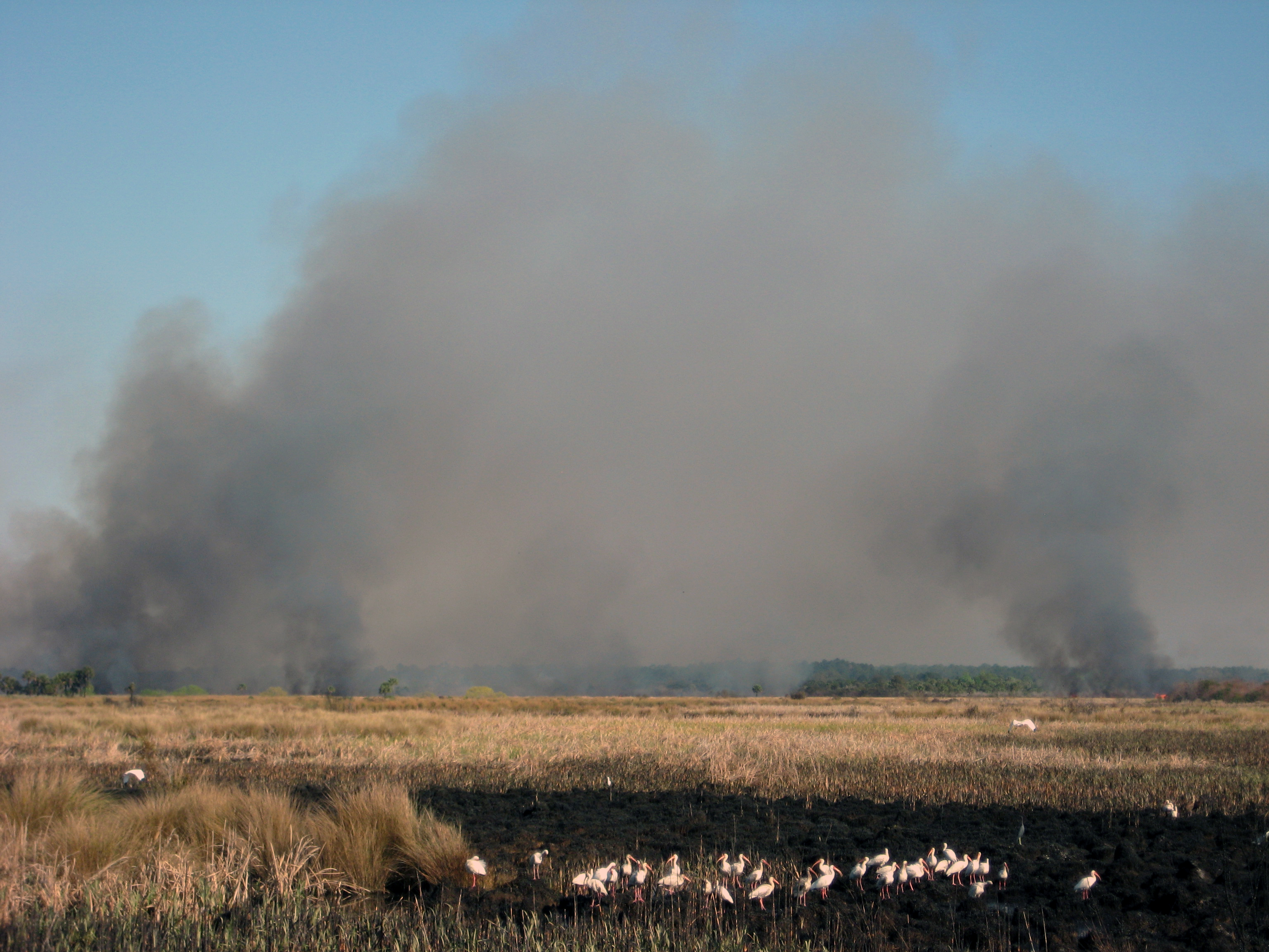 Birds return to a marsh in St. Johns NWR the morning after the Fairfield fire started. The fire actively burned through the night and burned 1,800 acres over 4 days. Firefighters from USFWS refuges in Florida worked with Florida DOF and local fire departments to contain the fire. Photo courtesy of Paul Stevko - USFWS